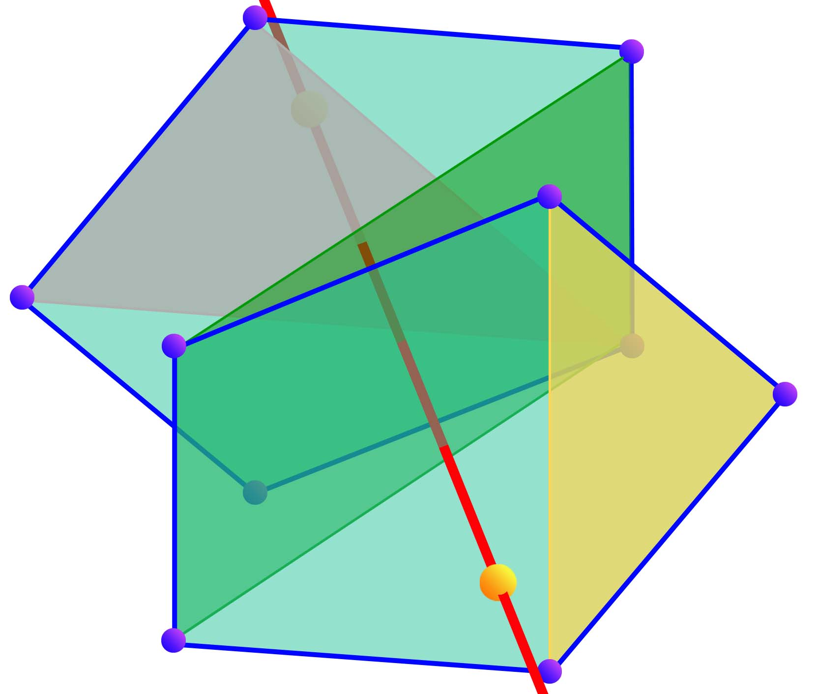 Golden figures in an icosahedron